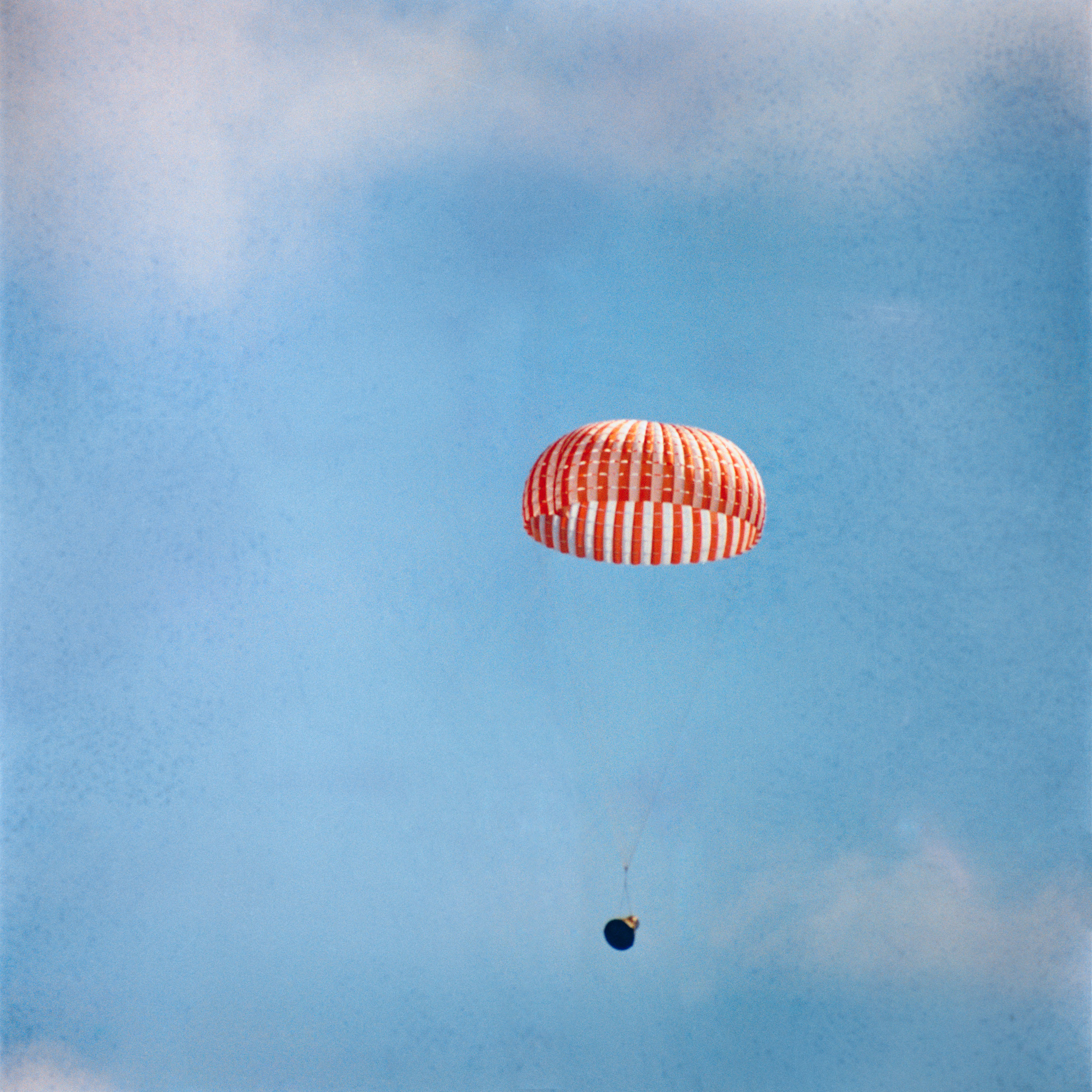 S66-53547 (15 Sept. 1966) --- The Gemini-11 spacecraft, with astronauts Charles Conrad Jr. and Richard F. Gordon Jr. aboard, nears touchdown in the Atlantic Ocean approximately two statute miles from the prime recovery ship, USS Guam. Gemini-11 splashed down at 9 a.m. (EST), Sept. 15, 1966, to conclude a three-day mission in space.